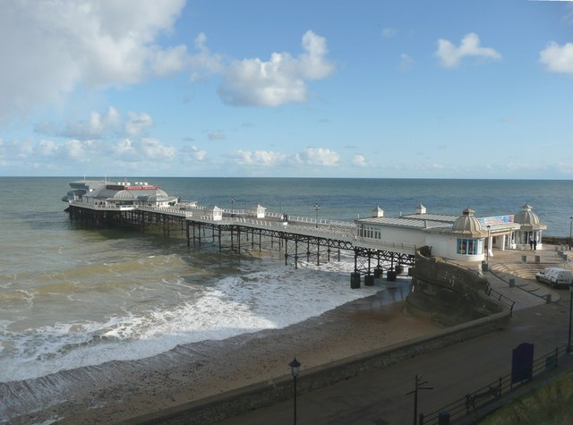 Cromer Pier With the Pavilion Theatre at the end.